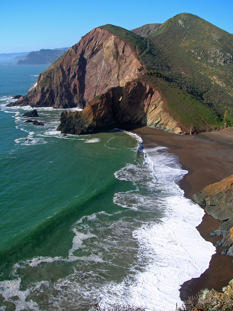 Tennessee Cove is an embayment of the Pacific Ocean in Marin County, California. The arch visible in the image collapsed in january 2013, within a year of this image being taken.